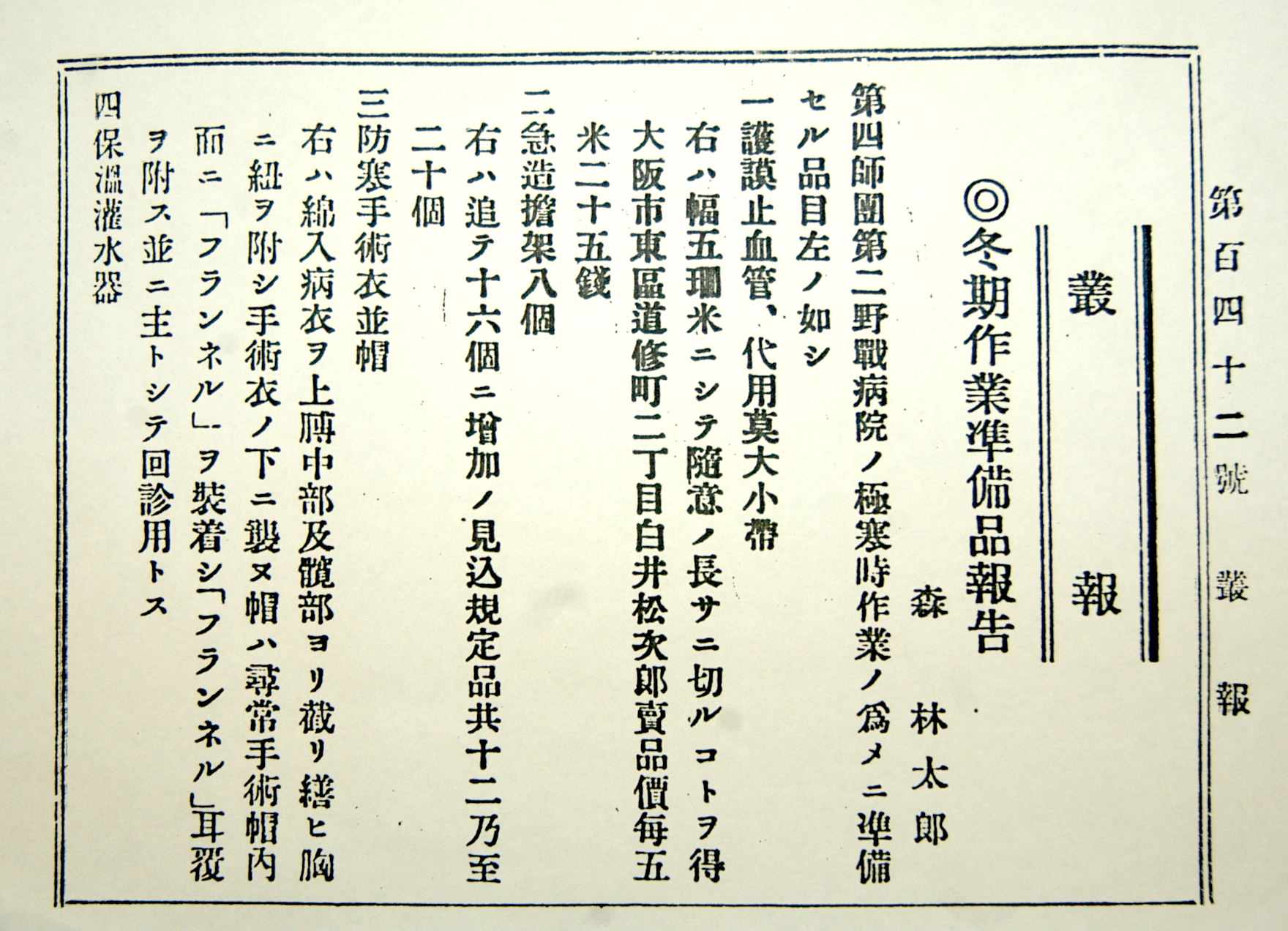 Printed report put up by MORI Rintarō (MORI Ōgai, 1862 – 1922), medical officer of the Imperial Japanese Army, translator, novelist and poet, about the provision of medical supplies for field hospitals in extreme cold environments (probably Manchuria).